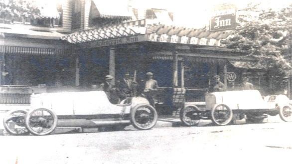 Two of the three Porter-Knight Indianapolis racecars built in 1914-1915 for the 1915 Indianapolis 500. The cars got 52 HP Willys-Knight 4 cylinder engines. Photographed in front of the Ardencraig Inn in Port Jefferson NY, which was destroyed by fire in 1920. Because of engine problems, none did start in Indianapolis.